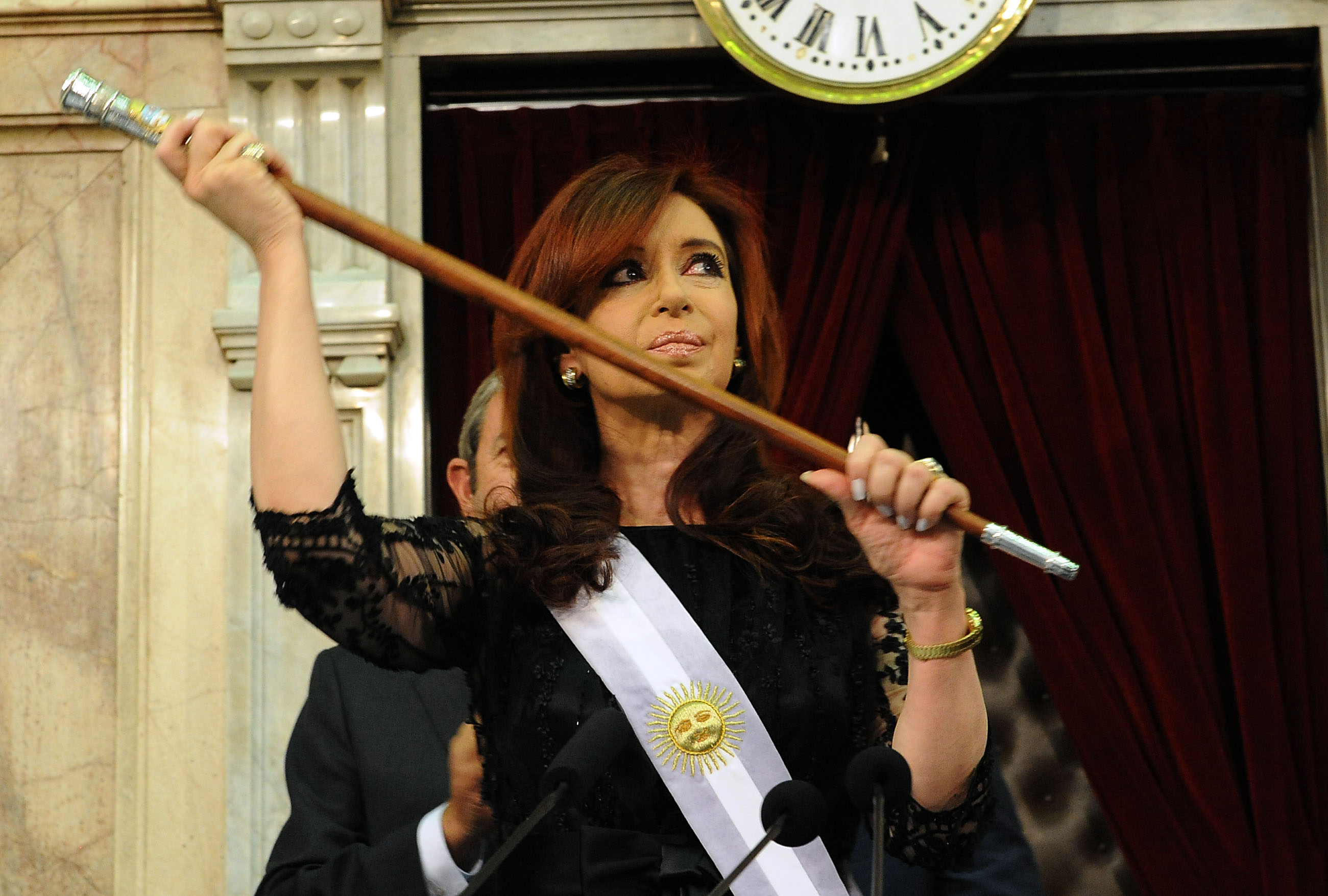 President Cristina Fernández de Kirchner at her second Inauguration day.